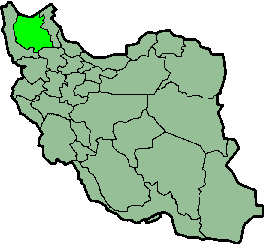 Province of East Azarbayjan, Iran